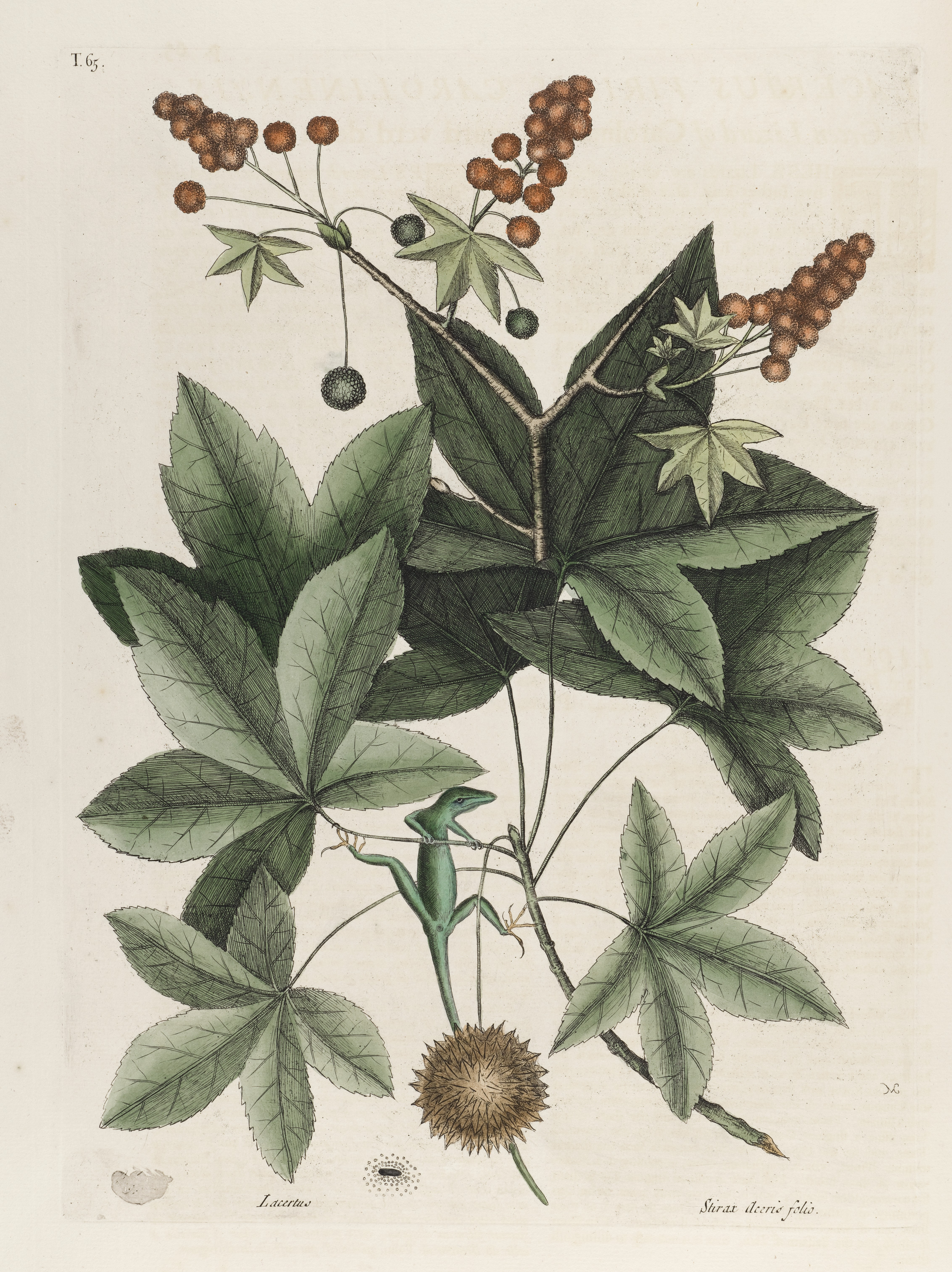 Liquidamber and the Green Lizard of Carolina. Rare Books Keywords: Natural History